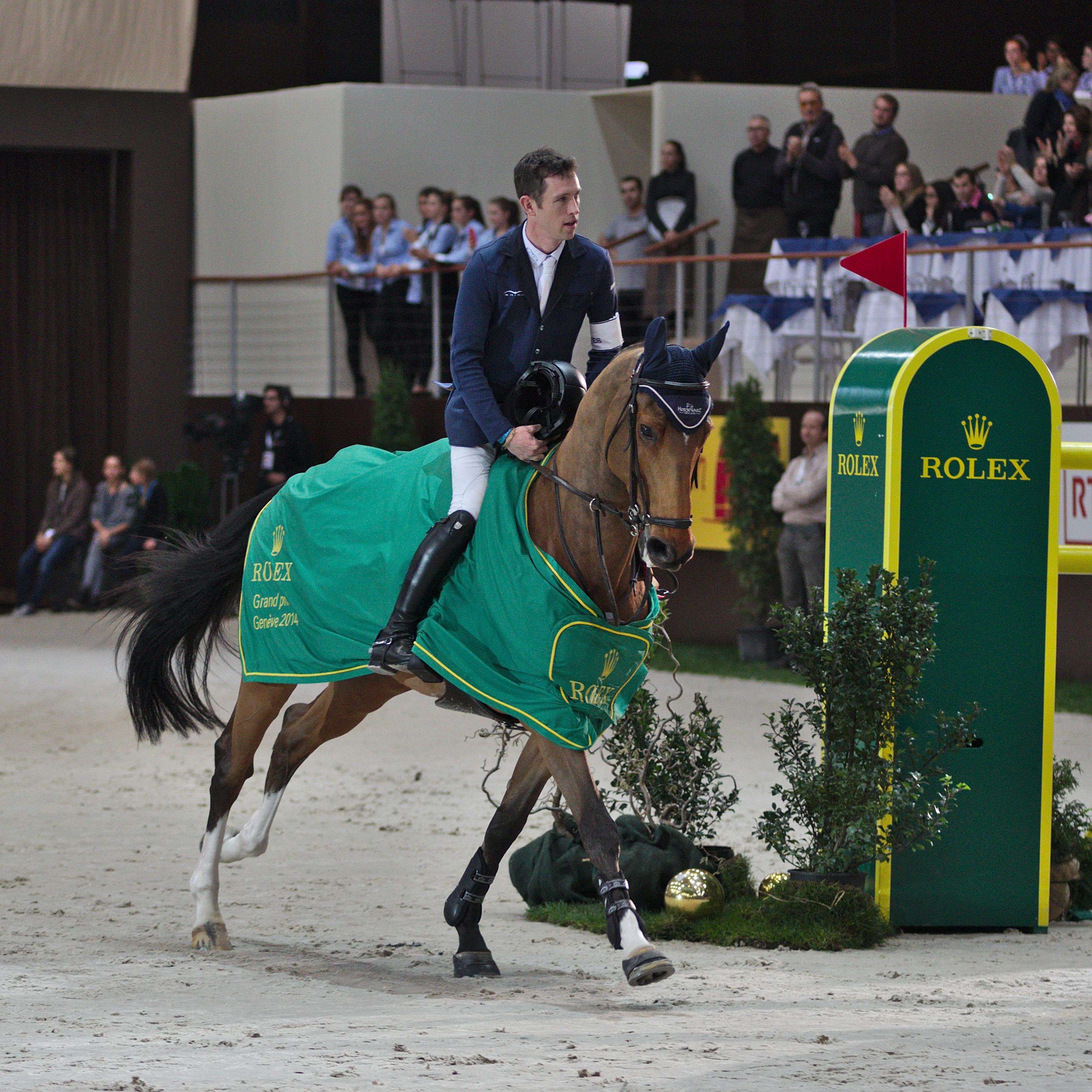 54eme CHI de Genève - 20141214 - Scott Brash et Hello Sanctos - Vainqueurs